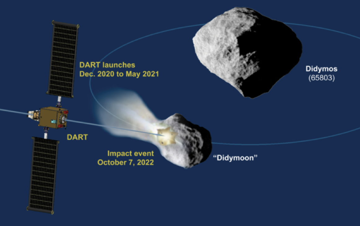 Schematic of the DART mission shows the impact on the moonlet of asteroid (65803) Didymos. Post-impact observations from Earth-based optical telescopes and planetary radar would, in turn, measure the change in the moonlet’s orbit about the parent body.